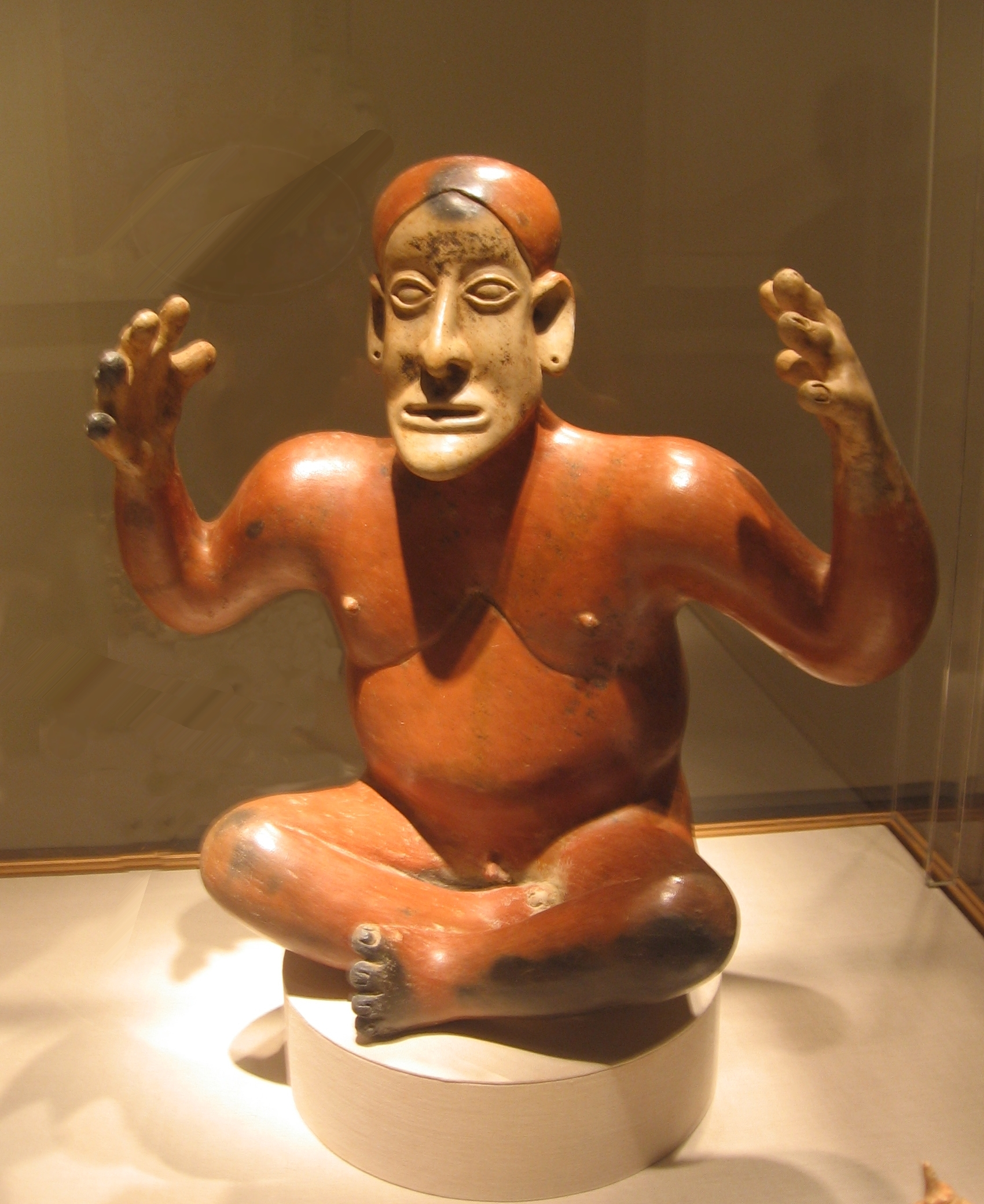 A shaft tomb figurine from Jalisco executed in the Ameca style, dated by the Art Institute from AD 100 - 800. Height: 22 in (56 cm).